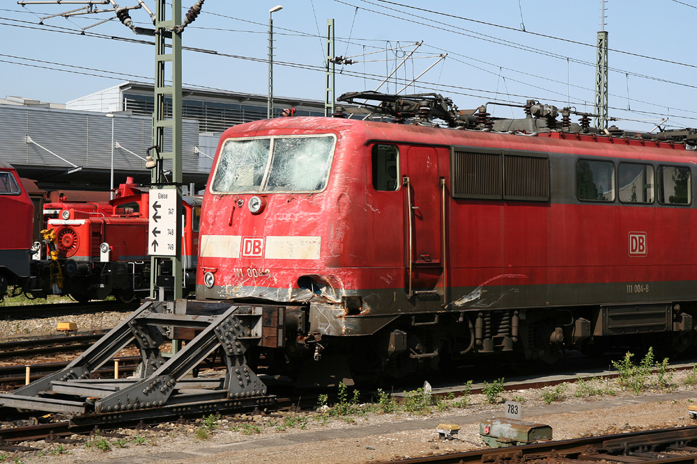 111 004, that had an accident in Eschenlohe, parked at the depot near Munich central station.